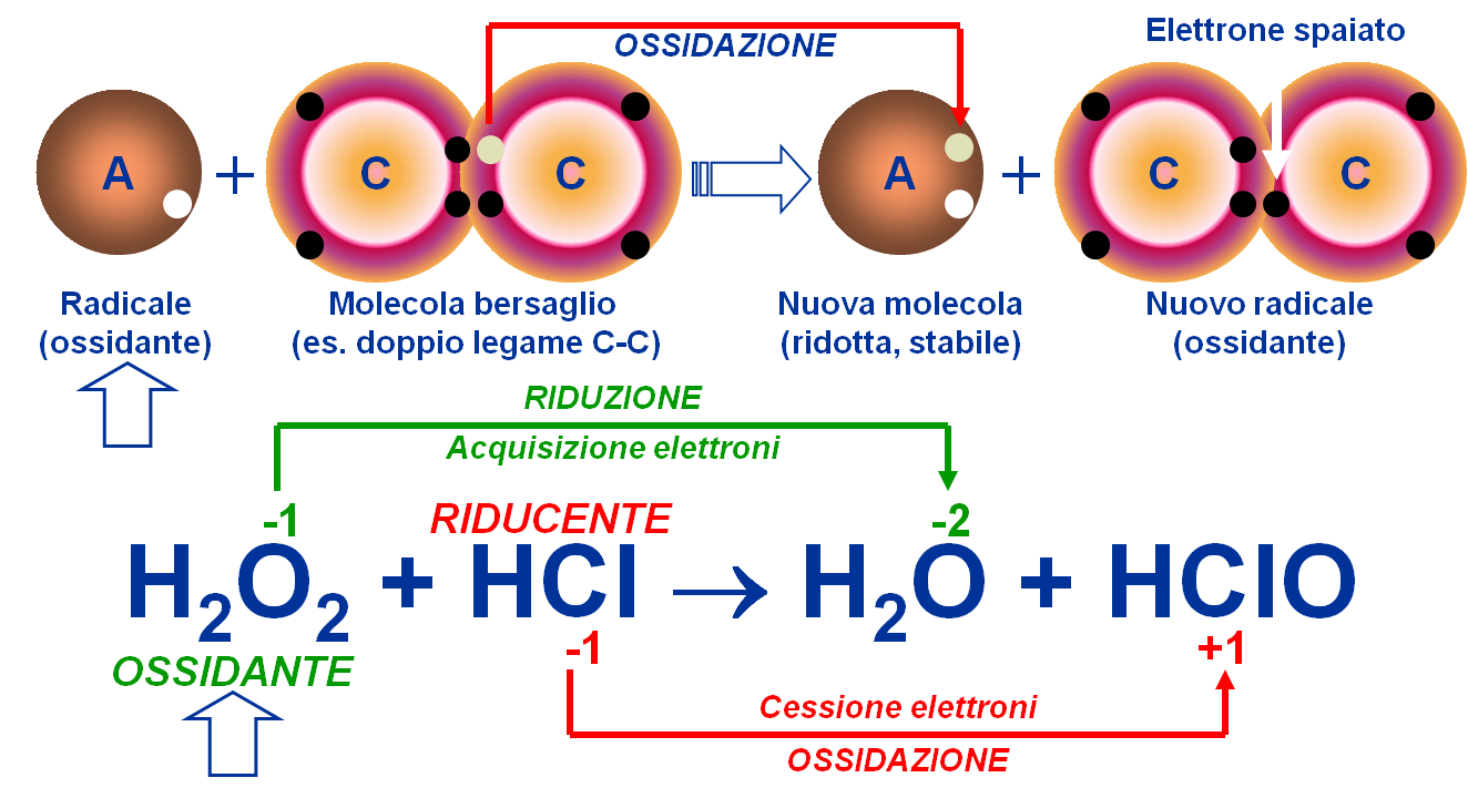 Oxidative stress process